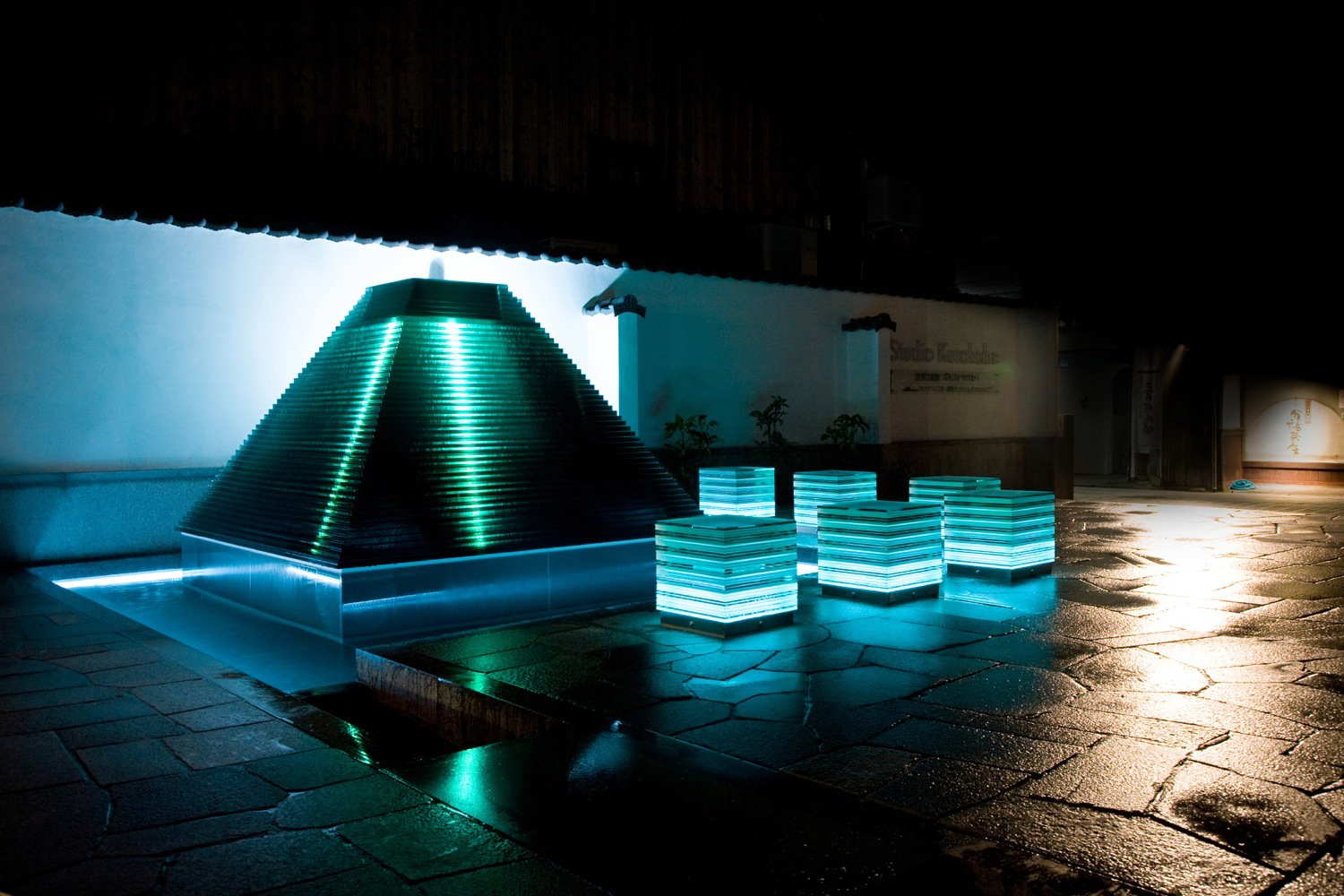 Works of KAWAKAMI Motomi 017-2009